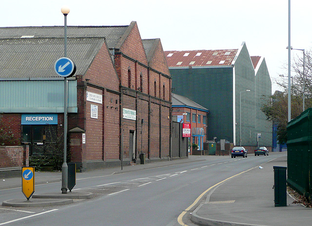 Industrial units, Millfields Road, Ettingshall There is now a mixture of former iron industry related buildings, and modern industrial units in this area.